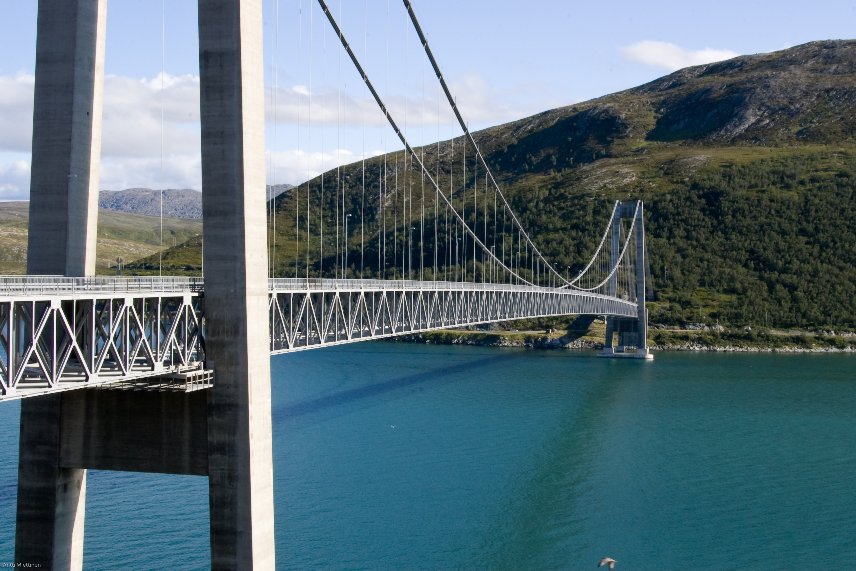 The Kvalsund Bridge is a suspension bridge in Kvalsund municipality that crosses Kvalsundet from the mainland to Kvaløya in Finnmark county, Norway